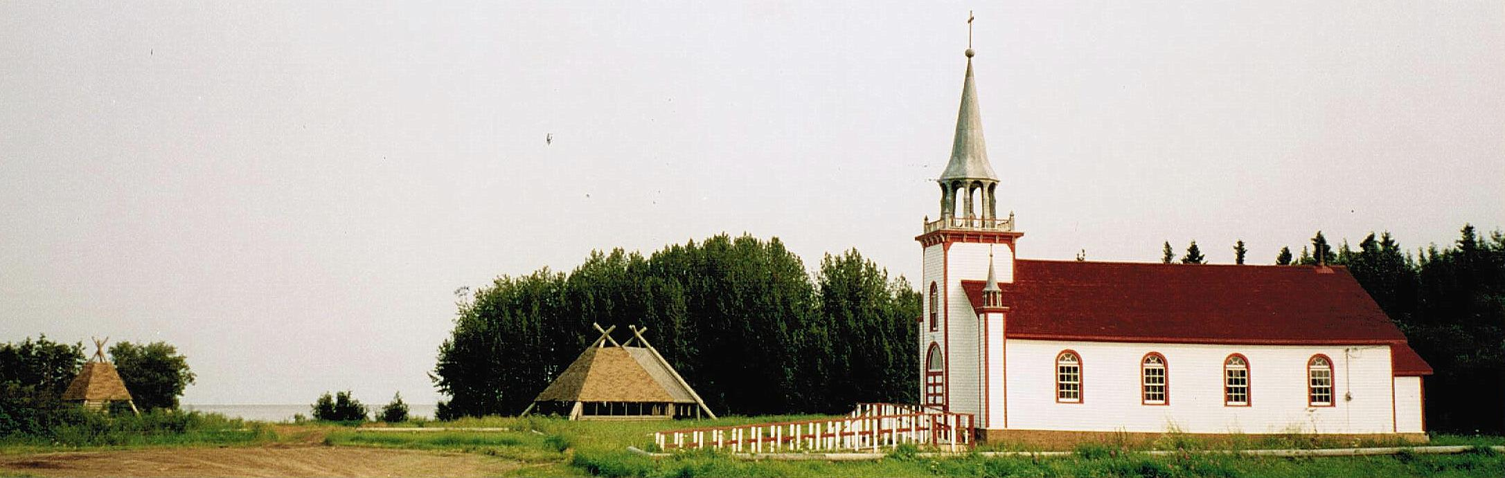 Roman Catholic Church on the Reserve with Great Slave Lake in the background looking north (Hay River, Northwest Territories, Canada). The site of the original Hay River missions, which today includes this church (Ste. Anne’s Roman Catholic Church), St. Peter’s Anglican Church, the remains of a rectory, and associated cemeteries, was designated as a National Historic Site of Canada in 1992, due to its association with the meeting of Dene and European cultures.